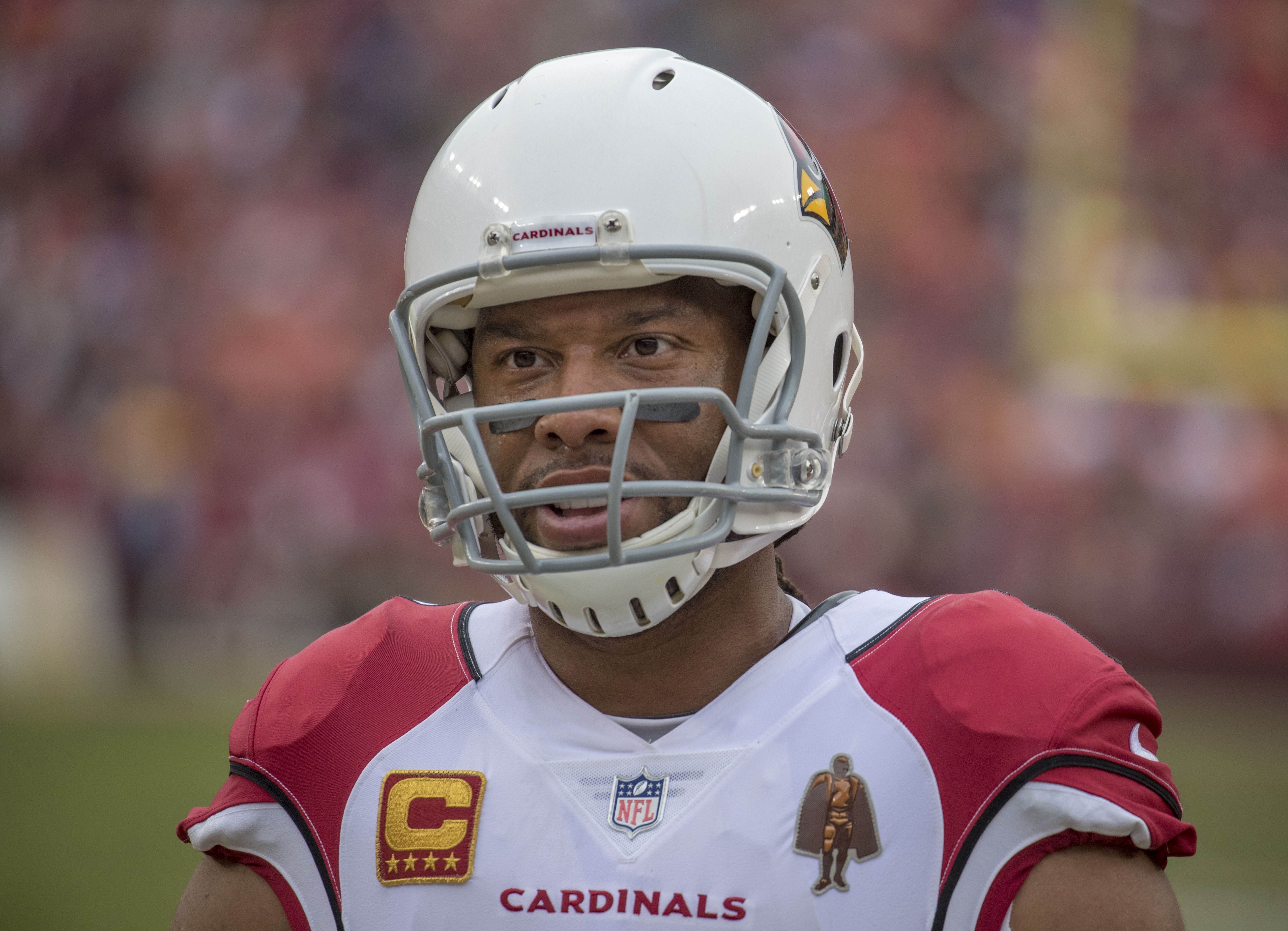 Cardinals at Redskins 12/17/17